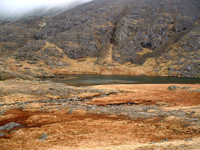 Llyn y Cwn. as seen from just from the north with the slopes of Glyder Fawr in the Background. Llyn y Cwn is partially iced over.